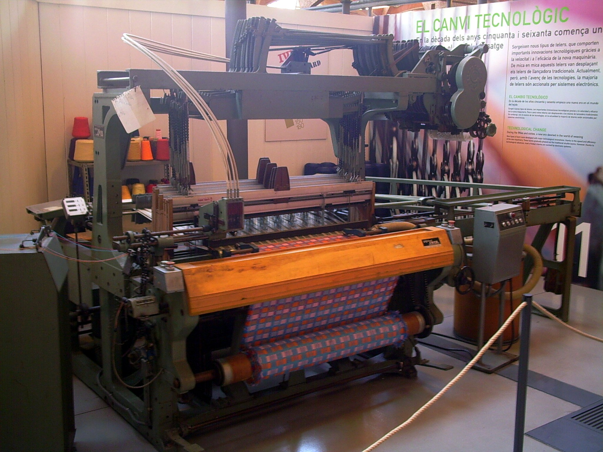 Iwer loom, at the mNATECT, Terrassa, (Catalunya).